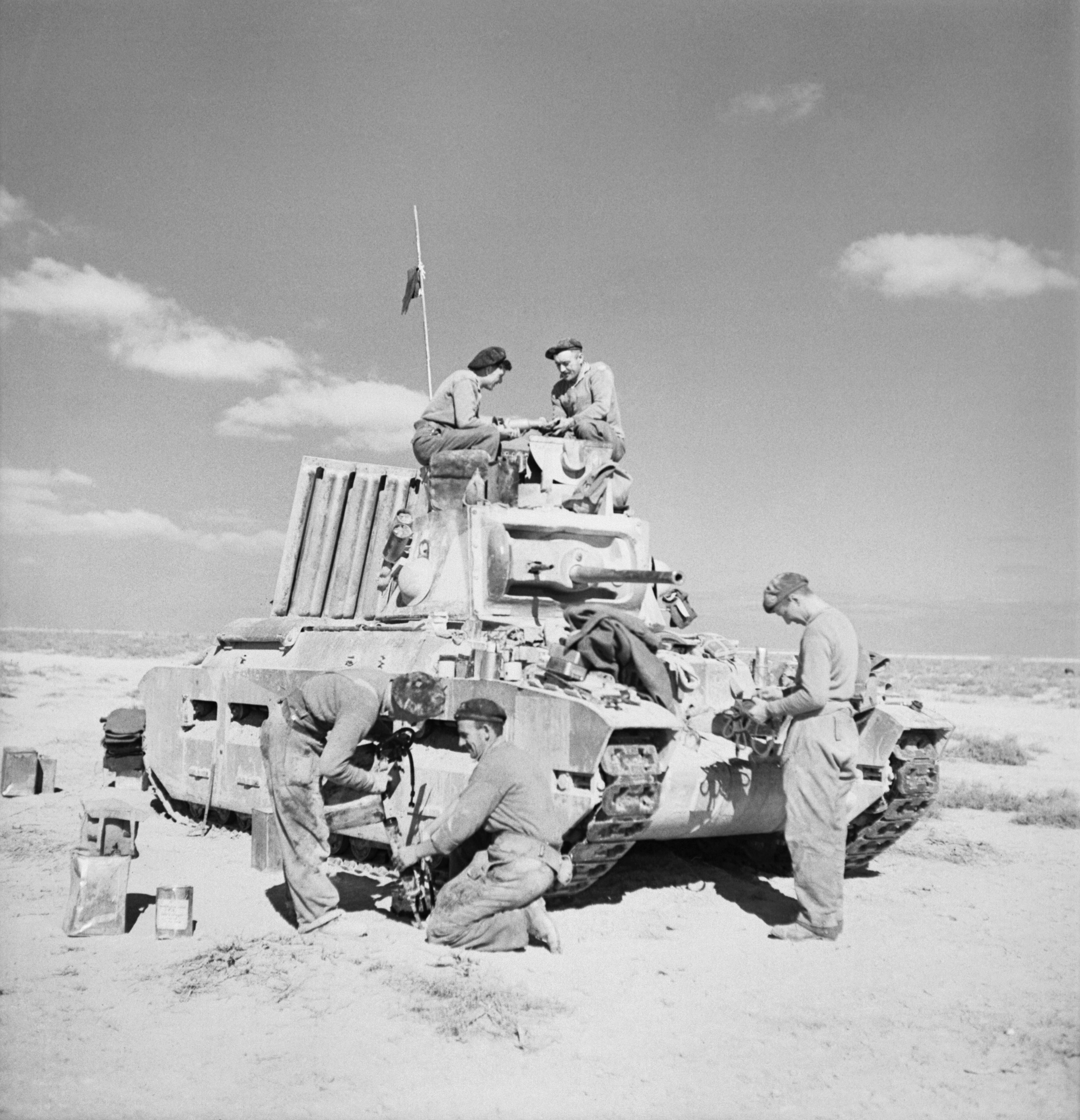 A Matilda tank crew overhauling their vehicle near Tobruk, 1 December 1941. A Matilda tank crew overhauling their vehicle in preparation for the next phase of battle near Tobruk, 1 December 1941.